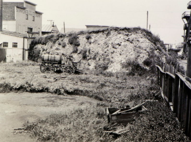 West Berkeley Ohlone shellmound as photographed by Nels C. Nelson in 1907.